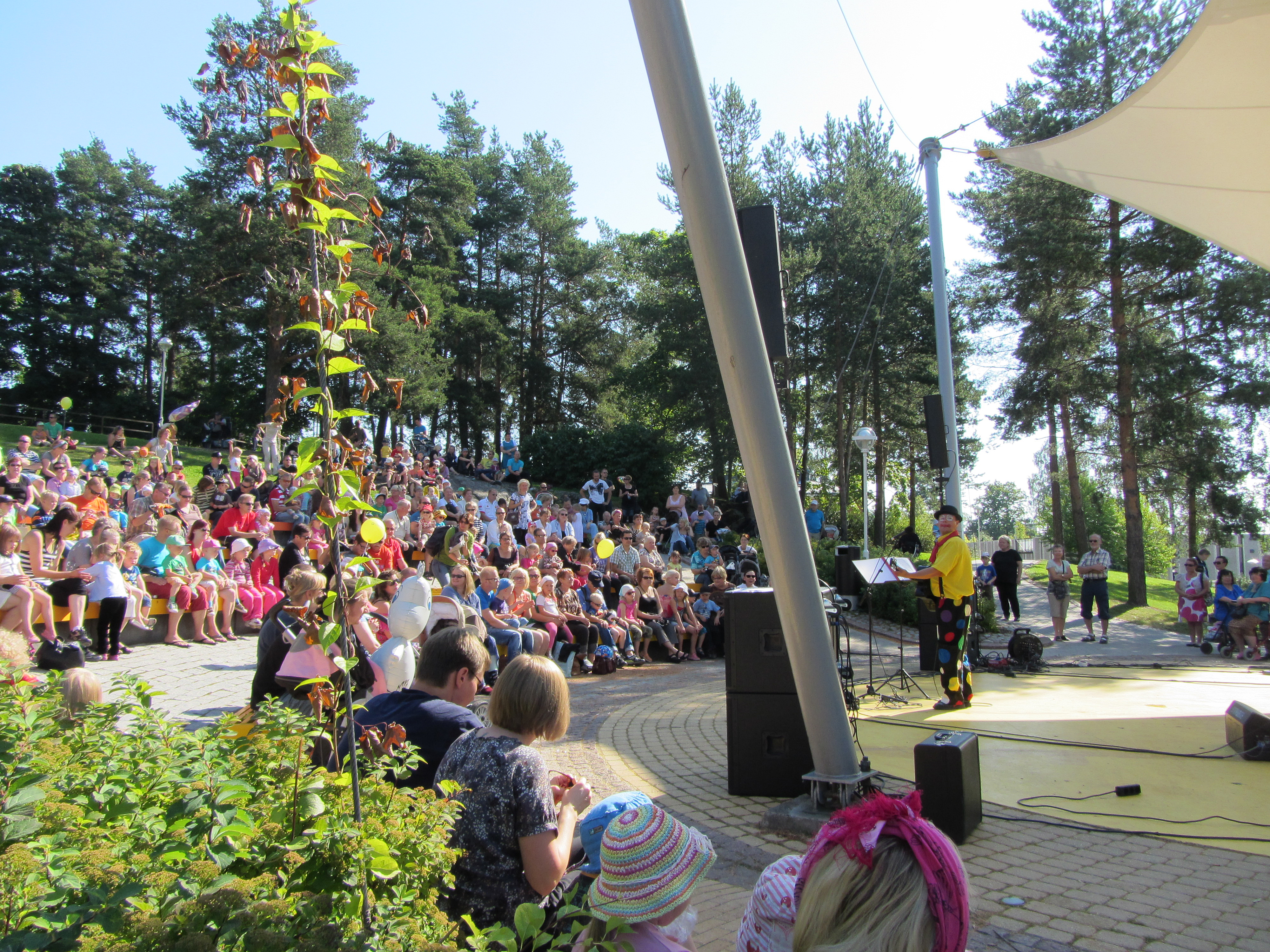 Pelle Positiivi with his band was perfoming on Aurinkomäki Stage during The Garlic Festival 2012